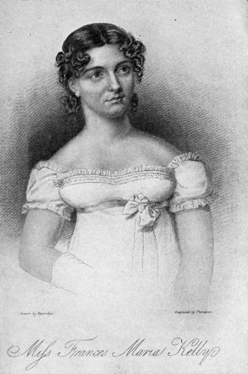 Miss Frances Maria Kelly in a book published in 1915 and in